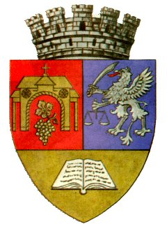 Coat of arms of Aiud, Alba County, Romania.